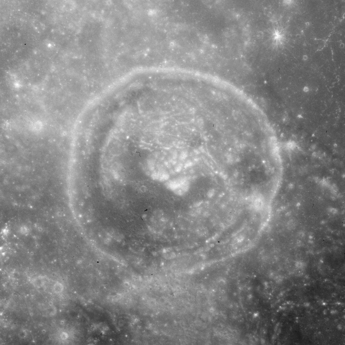 Schubert C crater, Mare Smythii, on the moon.